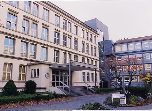 Entrance to the DECHEMA-Building